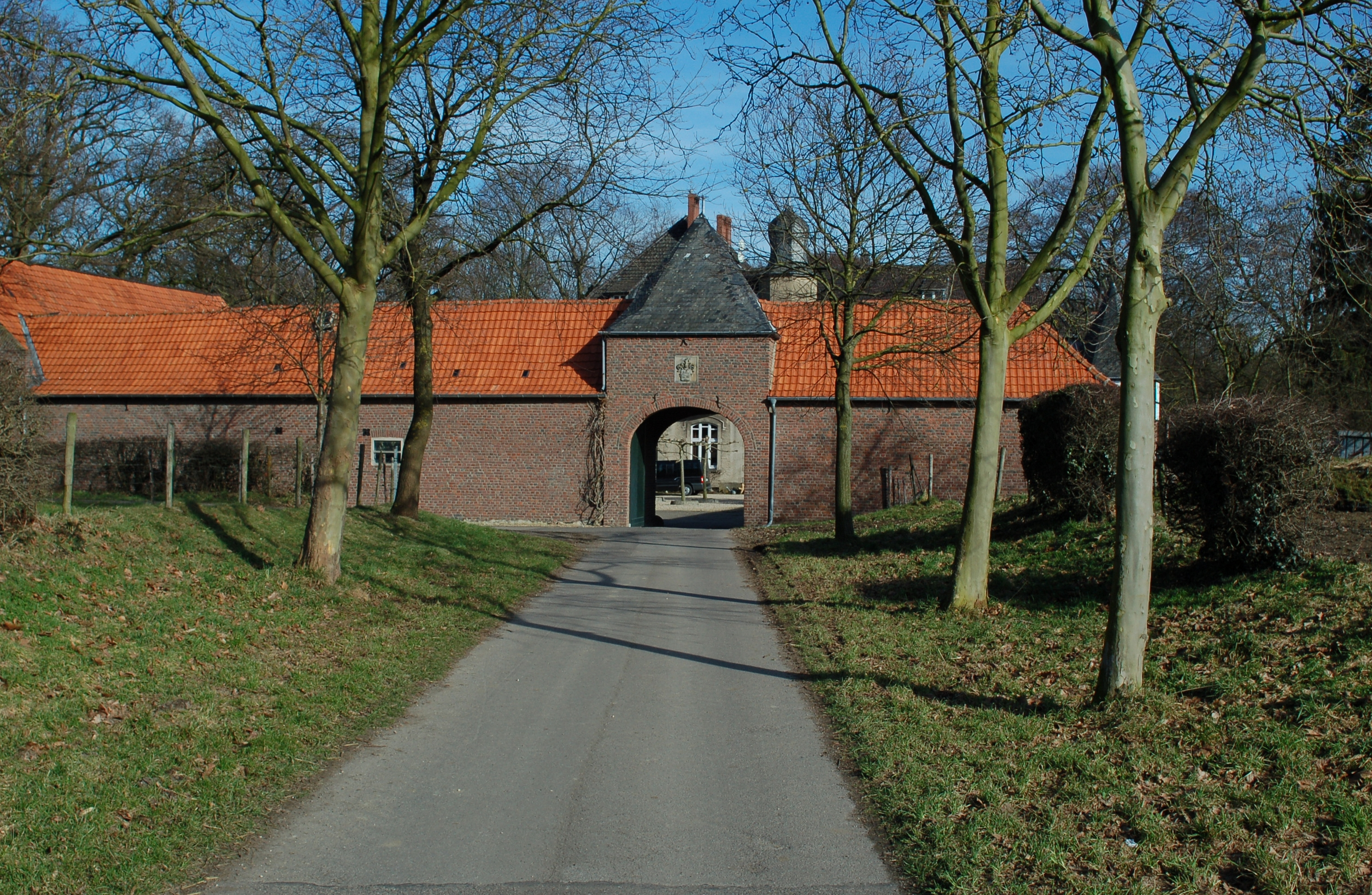 Haus Hülhoven